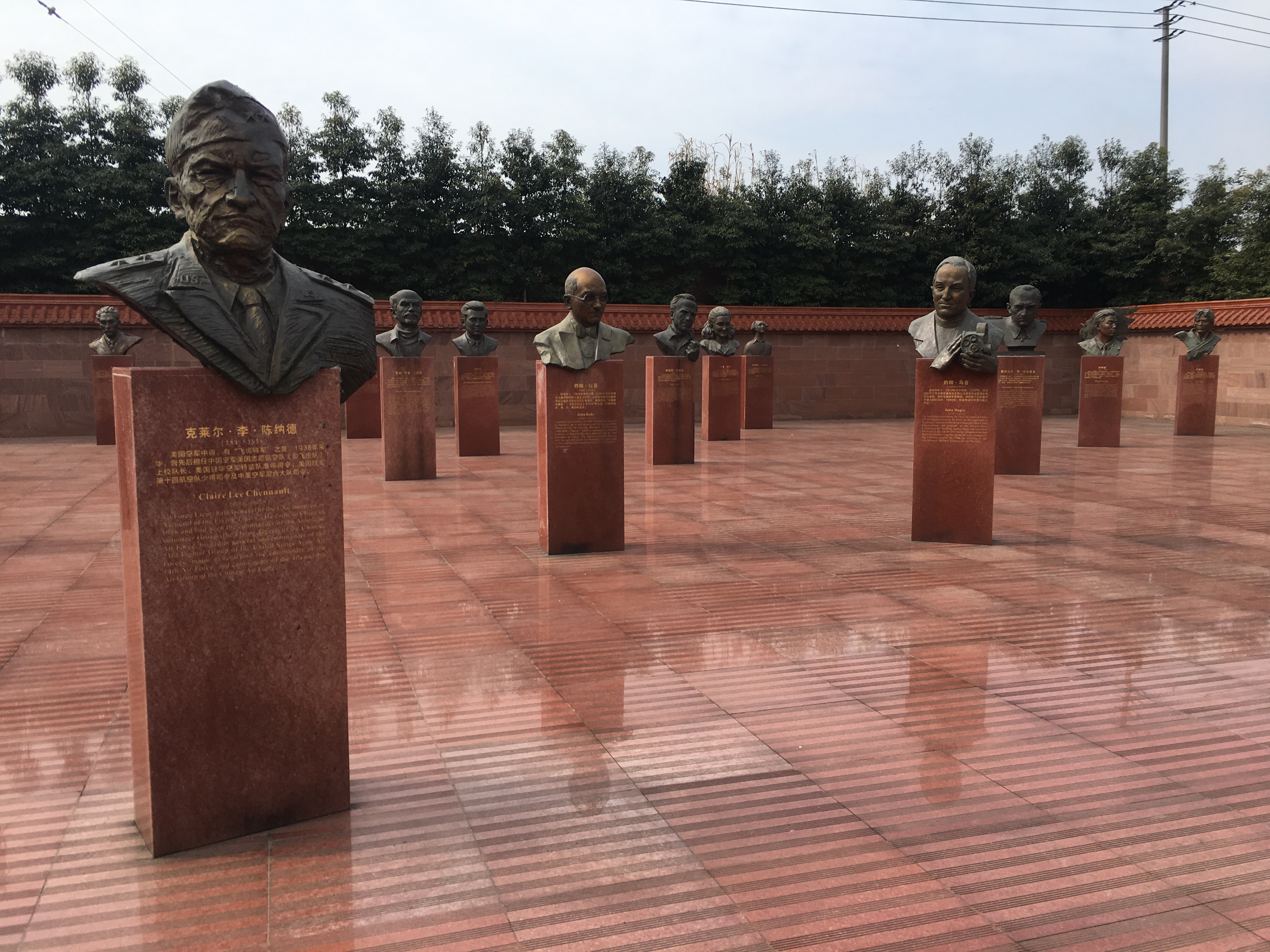 Statue of foreigners who helped China